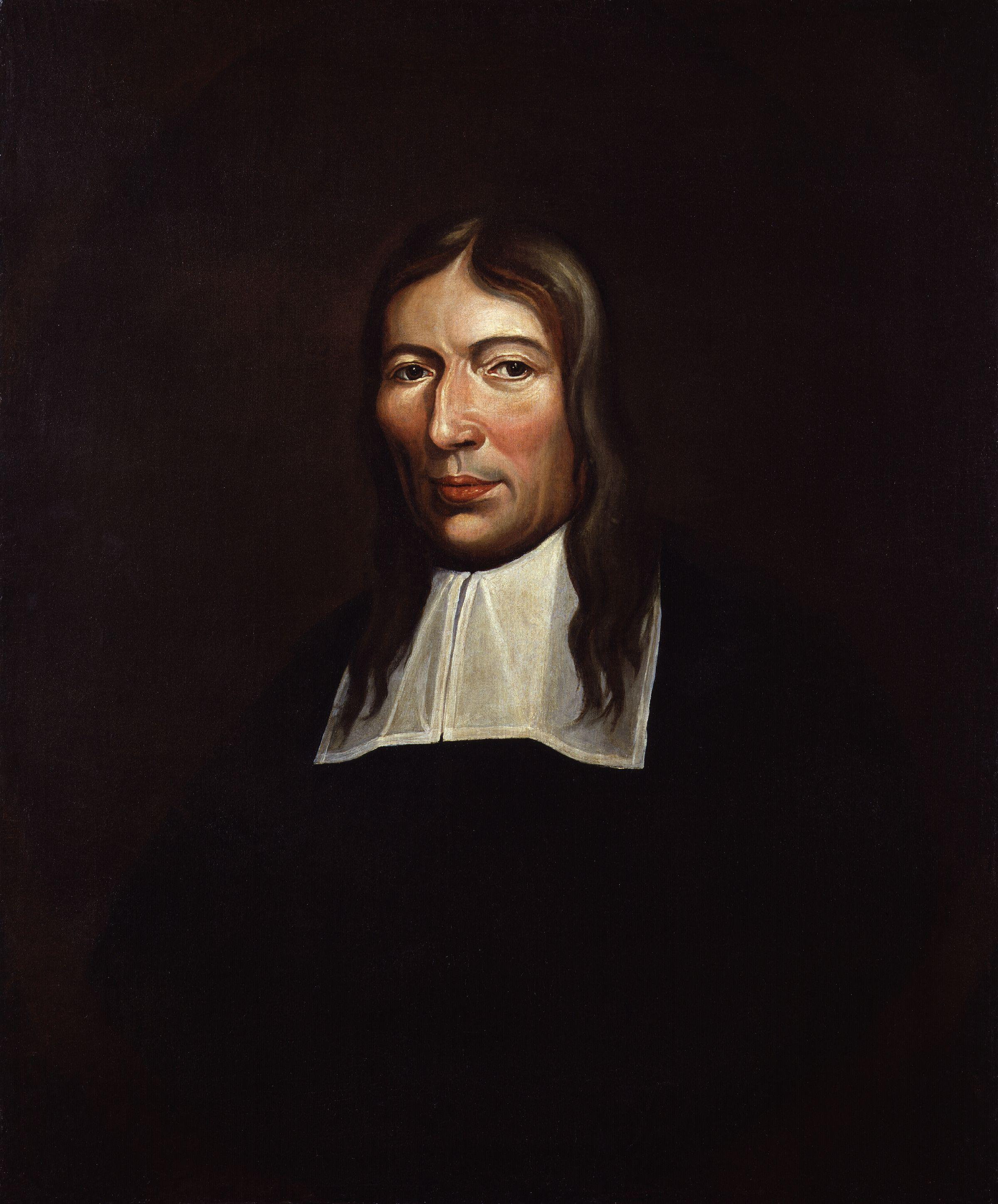 Lodowicke Muggleton, by William Wood (floruit 1674). All images in this batch have a known author with unknown death date, but according to the NPG's website the author was floruit (known to be active) prior to 1859, and so is reasonably presumed dead by 1939.